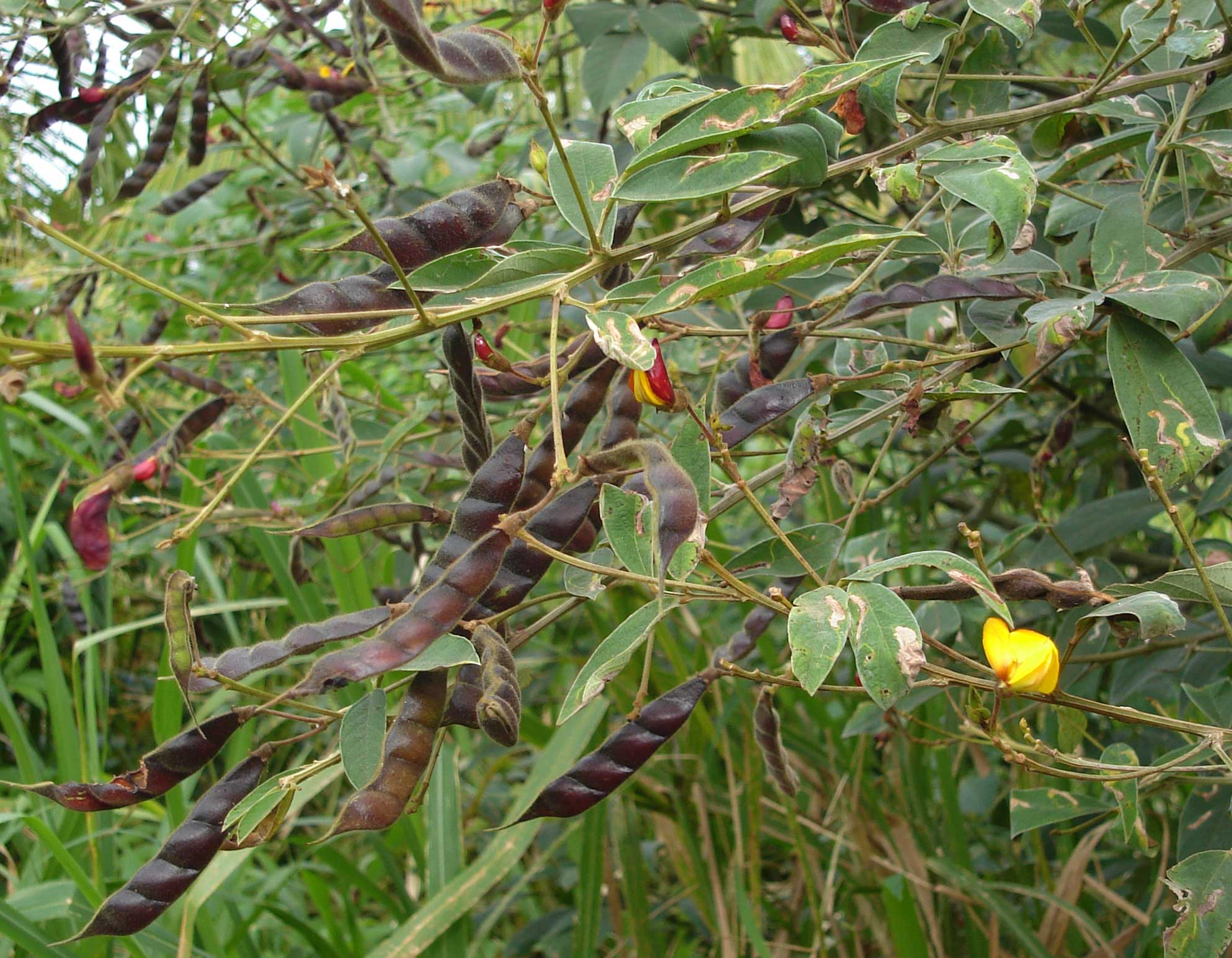 Cajanus cajan; a small tree in Tonga